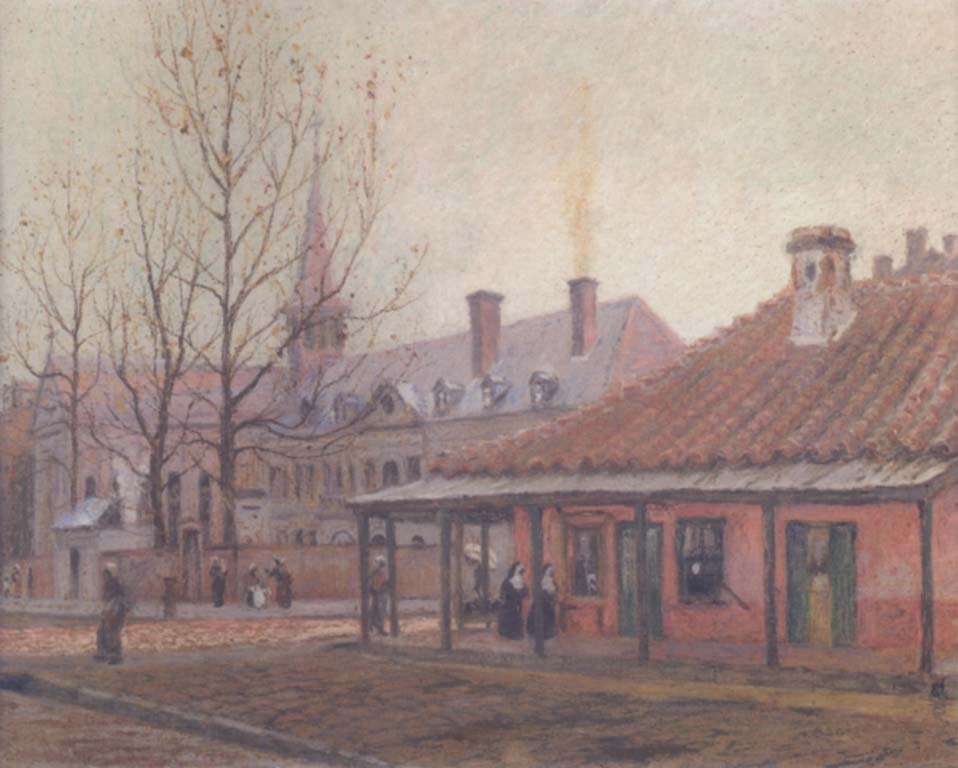 "Ursulines Convent New Orleans" 1902 Oilstick on board view of the French Quarter of New Orleans, on Chartres up from Ursulines Street, looking towards the Old Ursulines Convent, 1902, by artist William Woodward (1859-1939). Watercolor on paper laid on board. Building at right, at uptown river of Chartres & Ursulines, no longer exists.